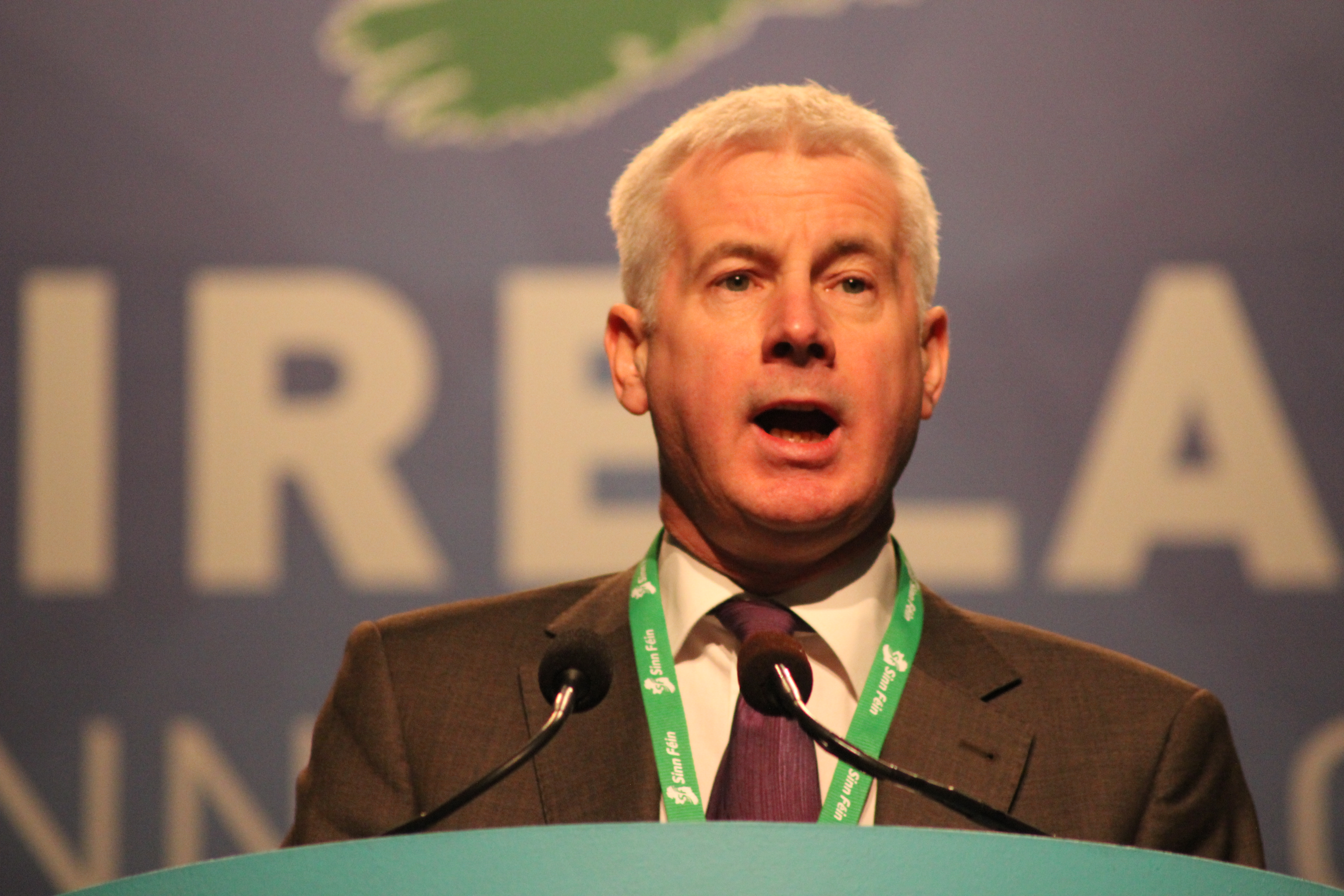 Seán Crowe in 2014